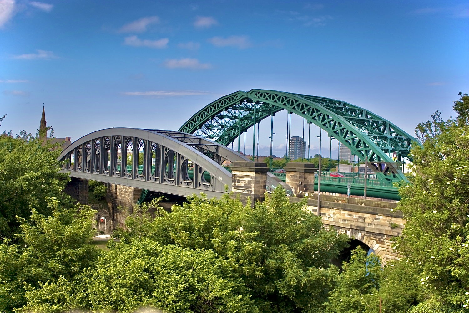 Sunderland bridges over River Wear